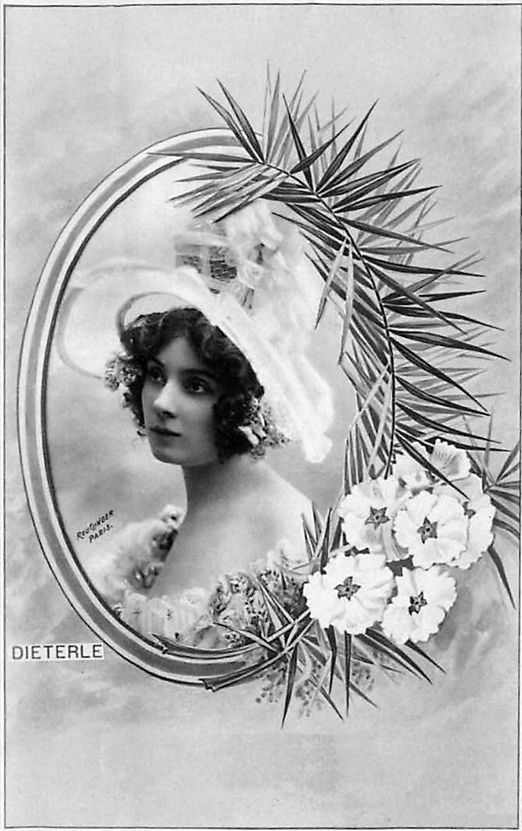 Amélie Diéterle by photographer Léopold-Émile Reutlinger. Amélie Diéterle is a French actress born in Strasbourg on February 20, 1871 and died in Cannes on January 20, 1941. She was legitimated in Paris in 1892 by Captain Louis Laurent, Knight of the Legion of Honor. Amélie Diéterle married in Vallauris on June 16th, 1930 with André Simon (1877-1965). Amélie Diéterle plays mainly at the Théâtre des Variétés in Paris during the Belle Époque.